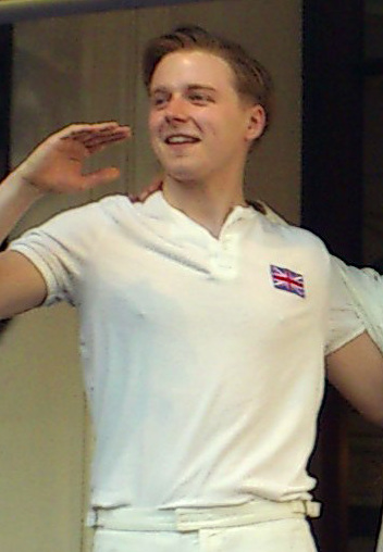 Jack Lowden, Vangelis, and James McArdle watch the Olympic Torch Relay from the Gielgud Theatre, 26 July 2012